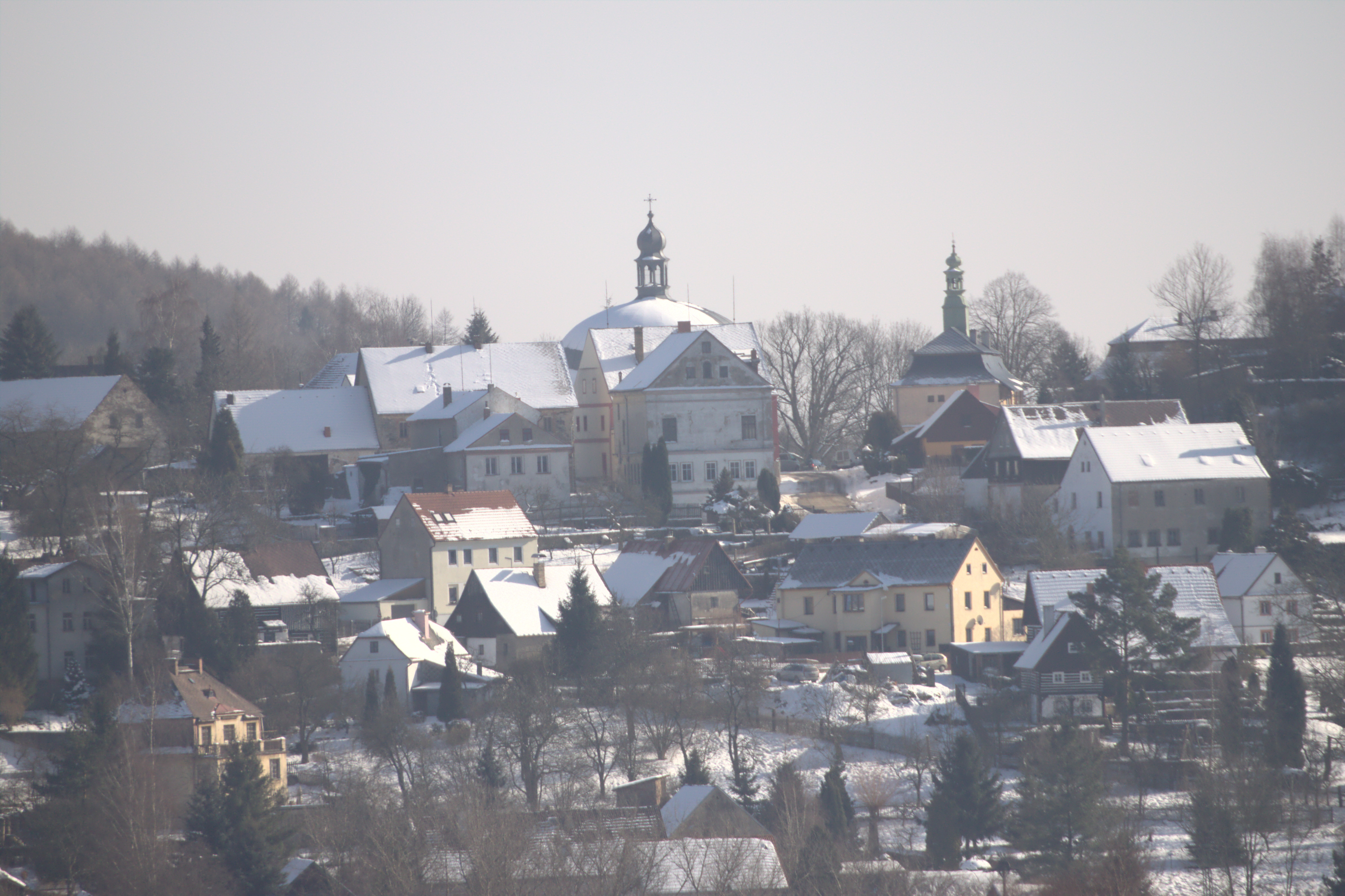 View of the Levín village from a hill near Lovečkovice, Ústí Region, CZ